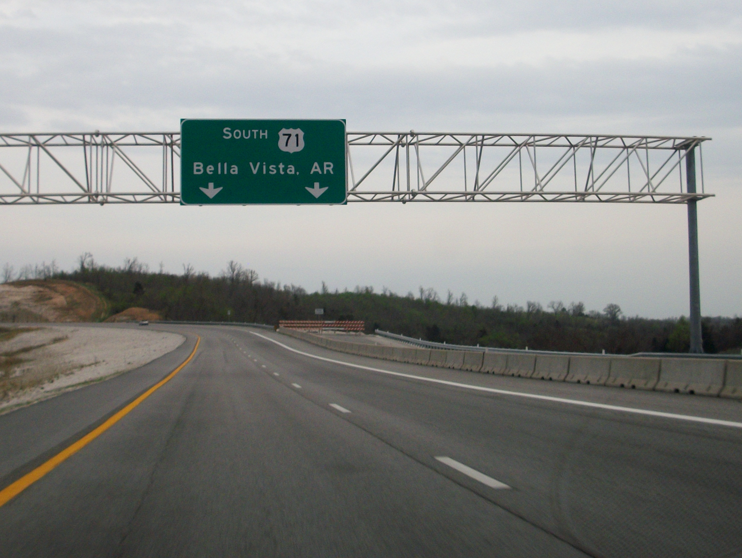 Northern end of the future Bella Vista Bypass. The closed segment visible will be an on-ramp onto the Bypass. This photo was taken from US 71 in Missouri north of Bella Vista, AR. The bypass will be a part of an extended Interstate 49.